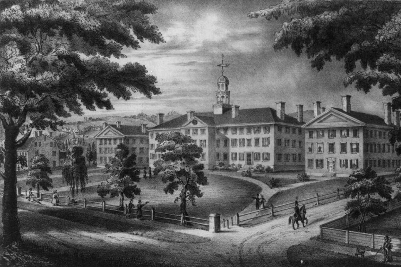 View of Dartmouth College circa 1834. Large trees in the foreground frame view of the college buildings showing, from left to right, Thornton Hall, Dartmouth Hall, and Wentworth Hall. The lithograph was printed in reverse.